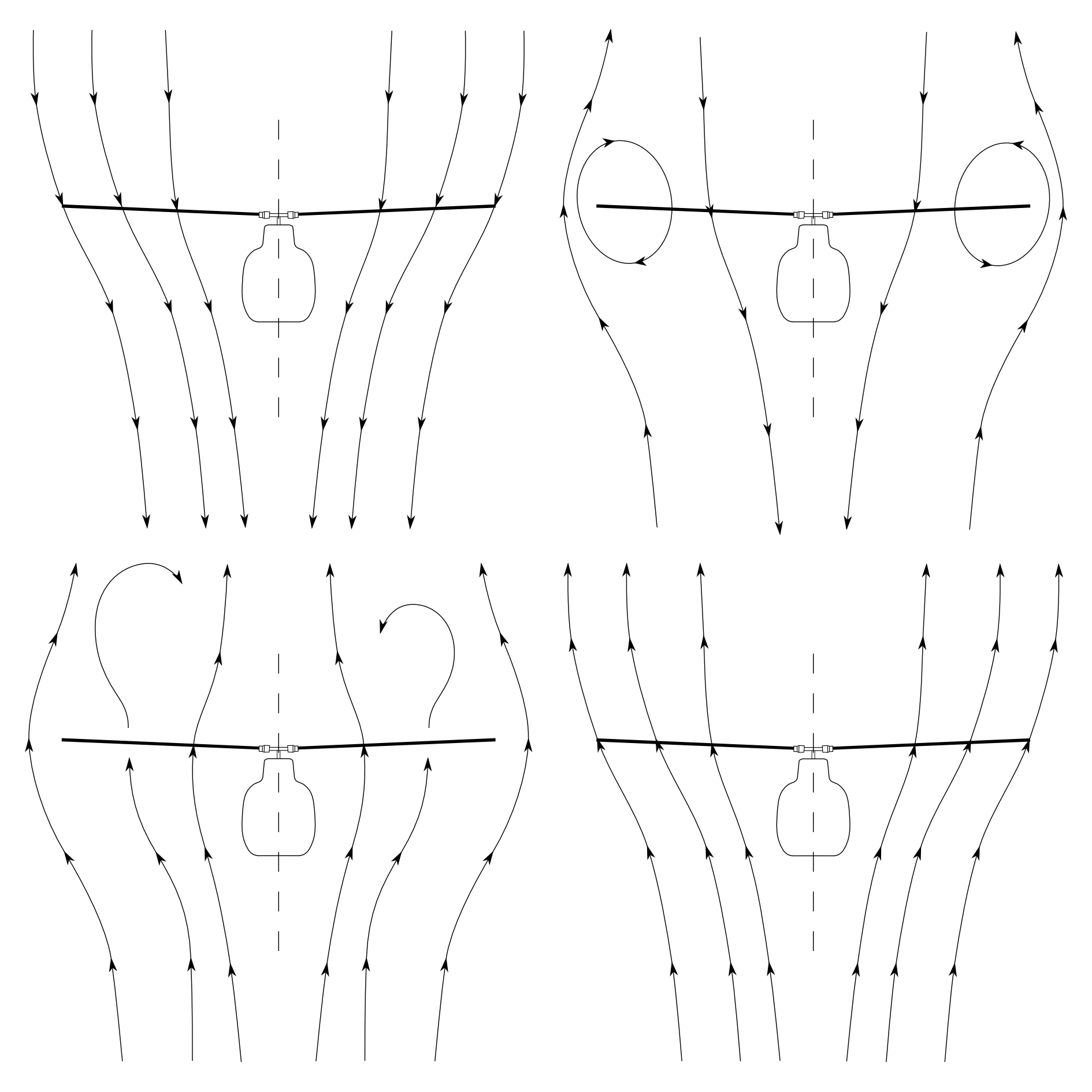 Helicopter Rotor States 1) normal state 2) vortex ring state 3) turbulent wake state 4) windmill state